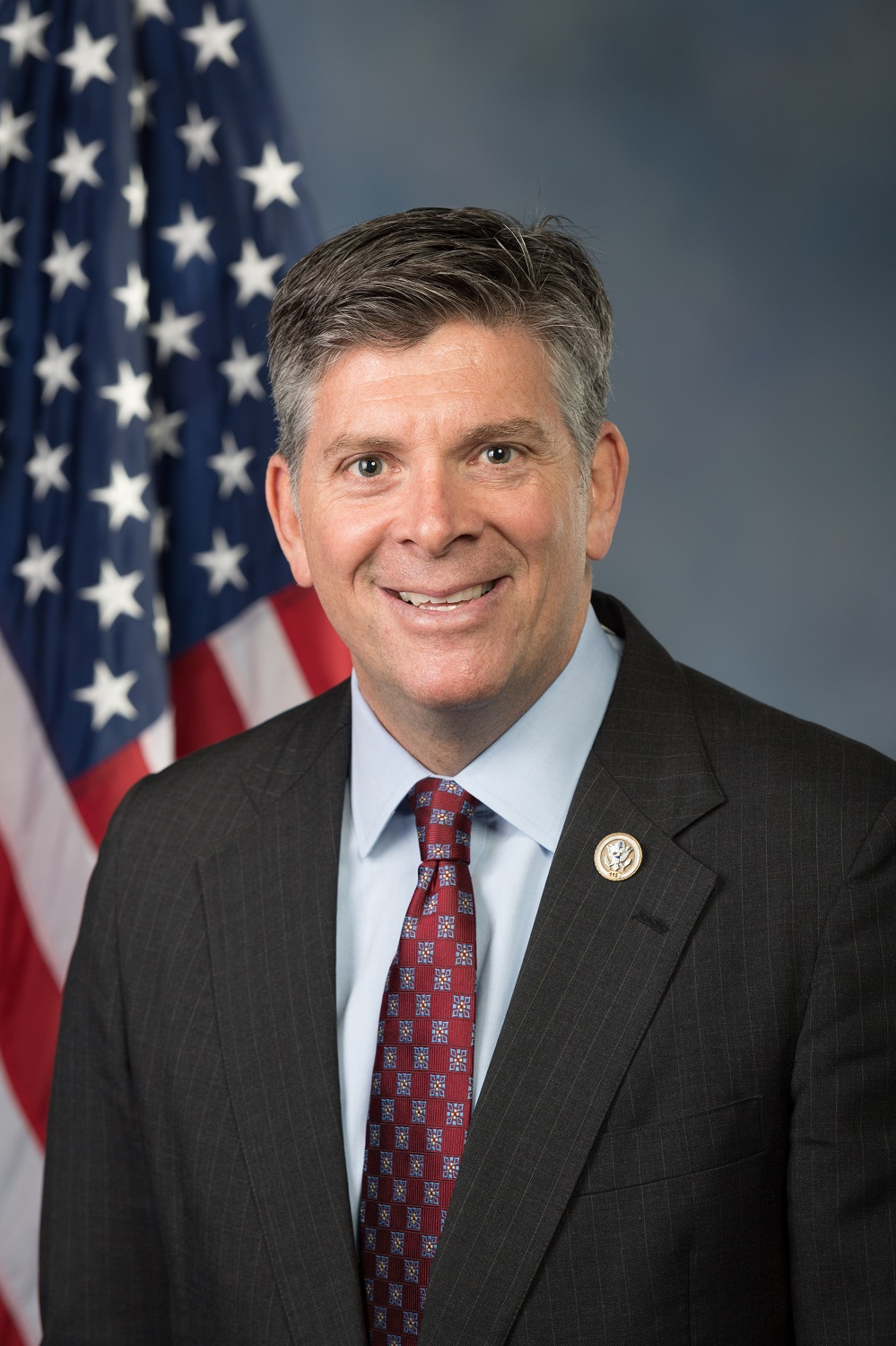 Darin LaHood official photo